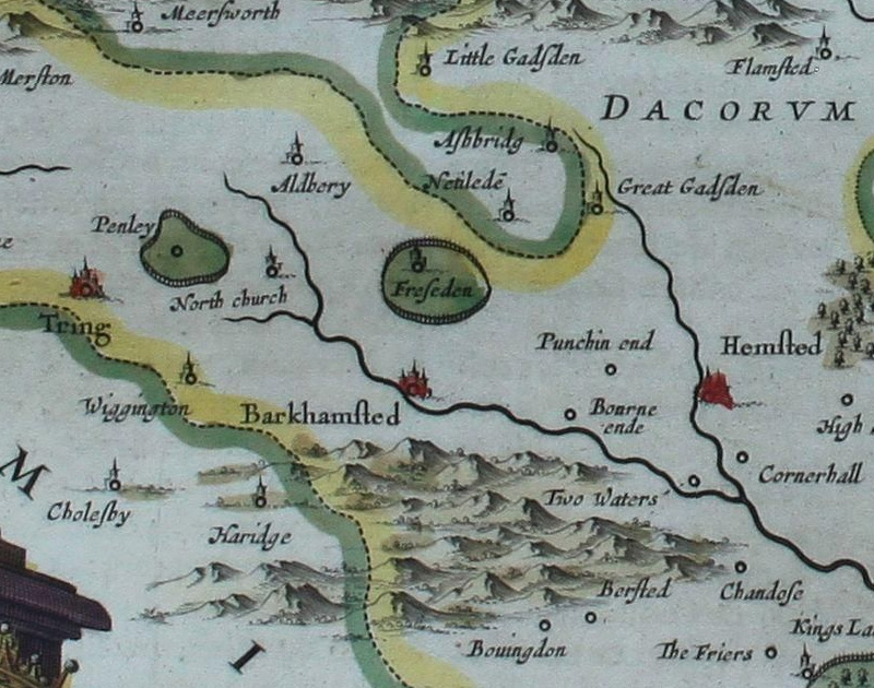 Detail of the map Hertfordia comitatus, vernacule Hertfordshire (1659) showing the towns of Tring, Berkhamsted and Hemel Hempstead and surrounding villages